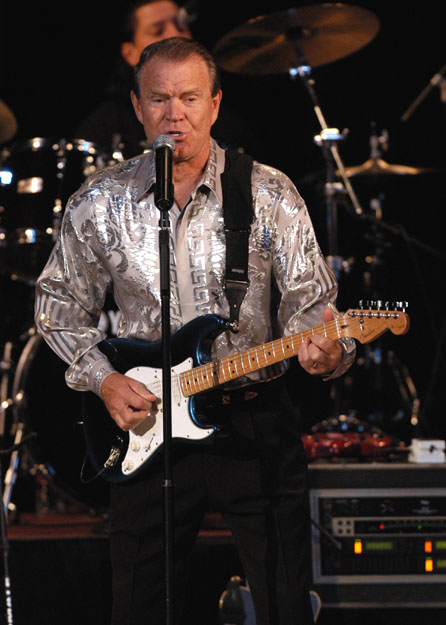 Glen Campbell in concert January 25, 2004 in Texas